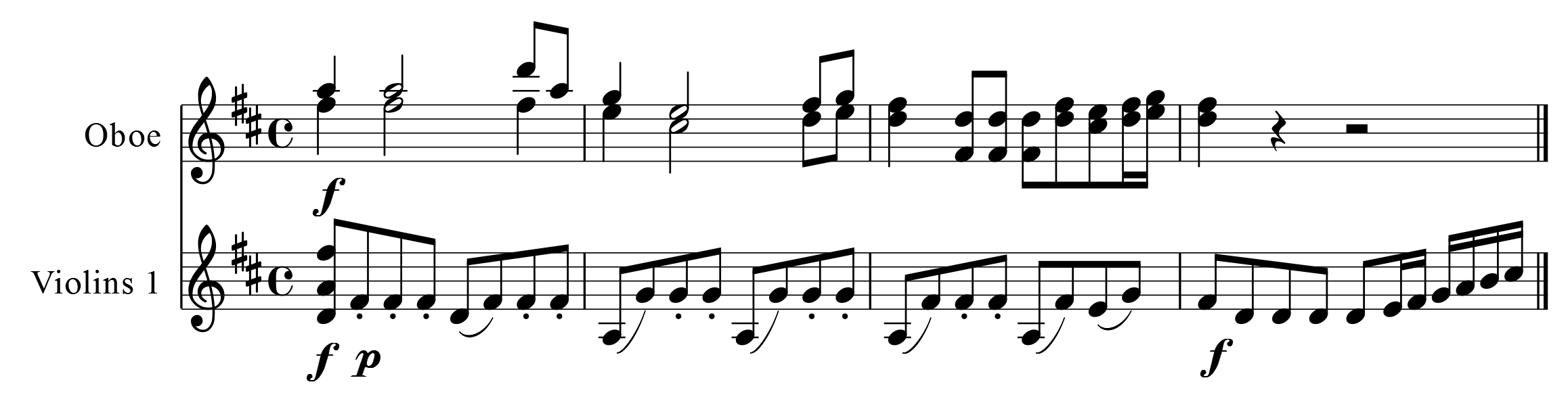 Joseph Haydn, Symphony No. 24, first movement, oboe and first violin, bar 1-4